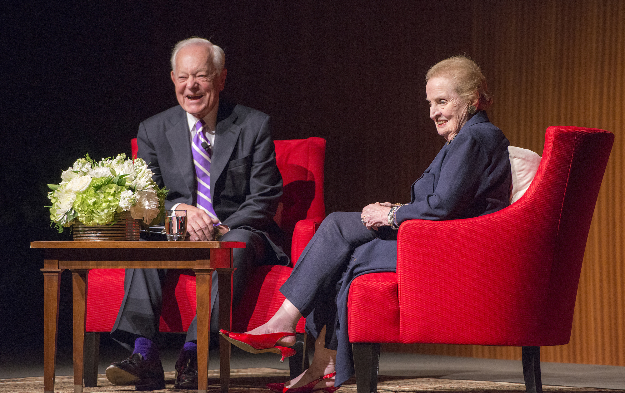 Secretary Albright and Bob Schieffer Former Secretary of State and U.N. Ambassador Madeleine Albright discussed highlights of her public service career with former CBS News journalist Bob Schieffer on Thursday, October 26th, 2017 at the LBJ Presidential Library. The event was open to members of the Friends of the LBJ Library. Secretary Albright's appearance marked the opening of a special exhibition, Read My Pins: The Madeleine Albright Collection, on view at the LBJ Library from Oct. 28, 2017 through Jan. 21, 2018. The exhibition showcases more than 200 beautiful pins and brooches that Albright wore as a diplomat as a visual way to express her messages. 10/26/2017 LBJ Library photo by Jay Godwin